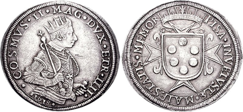 Italia, Pisa. Cosimo II de Medici. Grand Duke, 1608-1620. AR Tallero (28.35 g, 6h). Pisa mint. Dated 1618. O/ • COSMVS • II • MAG • DVX •ETR • IIII •, radiate and armored half-length bust right, wearing Cross of Malta, holding lis-tipped scepter over right shoulder, left hand on hilt; • 1618 • below R/ PISA • IN • VETVSTATÆ • MAIESTATIS • MEMOR, crowned coat-of-arms of Medici set on ornate frame. CNI XI 6; Davenport 4195; KM 16.3.